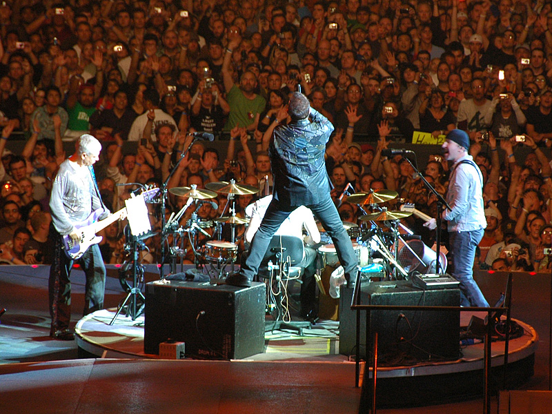 U2 in concert at Cowboys Stadium in Arlington, TX